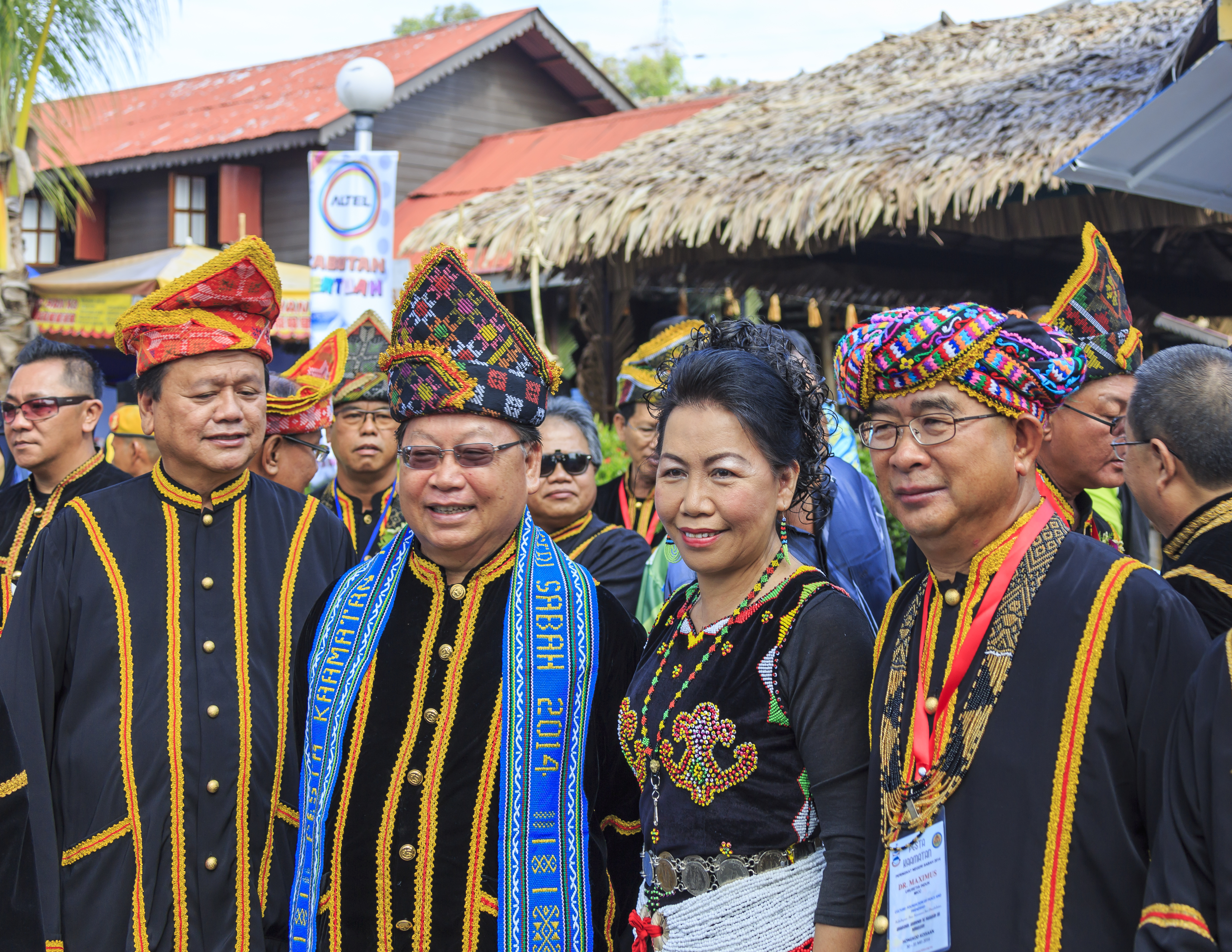 Penampang, Sabah: Dignitaries at Kaamatan 2014, grouping around Datuk Pairin Kitingan. From left to right: 1: Datuk Seri Clarance Bongkos Malakun, Deputy President of the Kadazan Dusun Cultural Association (KDCA), the President of the Council of the Justices of the Peace Sabah (MAJAPS), the Chairman of Board of Trustees of the Kadazan Society Sabah (KSS) and the President of the National Council of the Justices of the Peace, Malaysia 2: Tan Sri Datuk Joseph Pairin Kitingan, President of PBS 3: Joanna Datuk Kitingan, Director of Sabah Museum 4: Datuk Seri Dr. Maximus Johnity Ongkili, Minister of Science, Technology and Innovation of Malaysia.